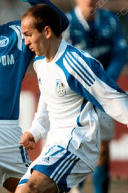 Andrei Bochkov as a player of FC Shinnik